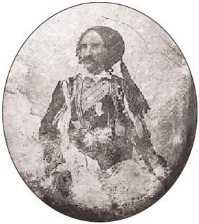 Panagiotis Naoum